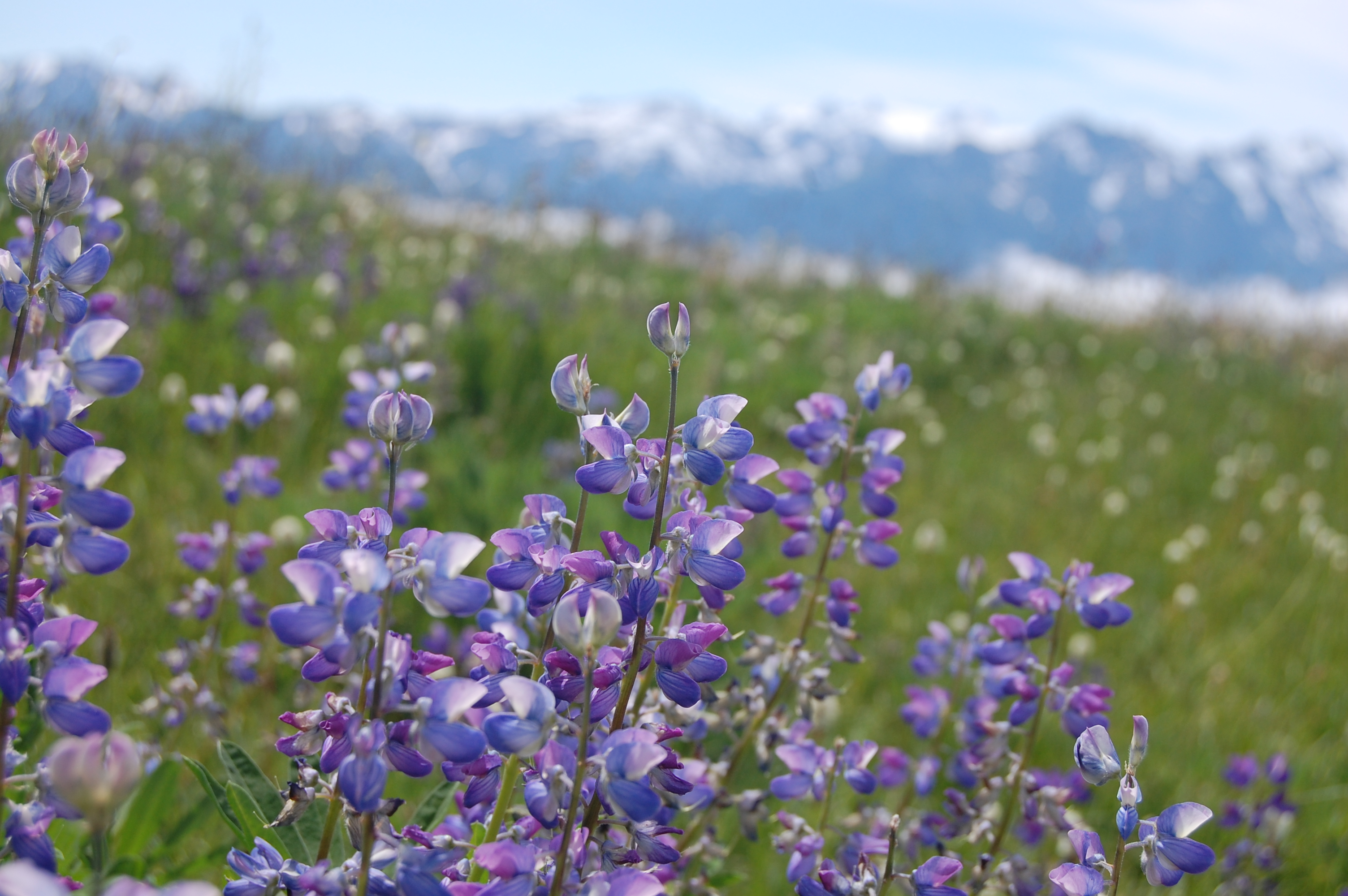 Lupinus latifolius (Broadleaf Lupine) found on Hurricane Ridge in Washington.